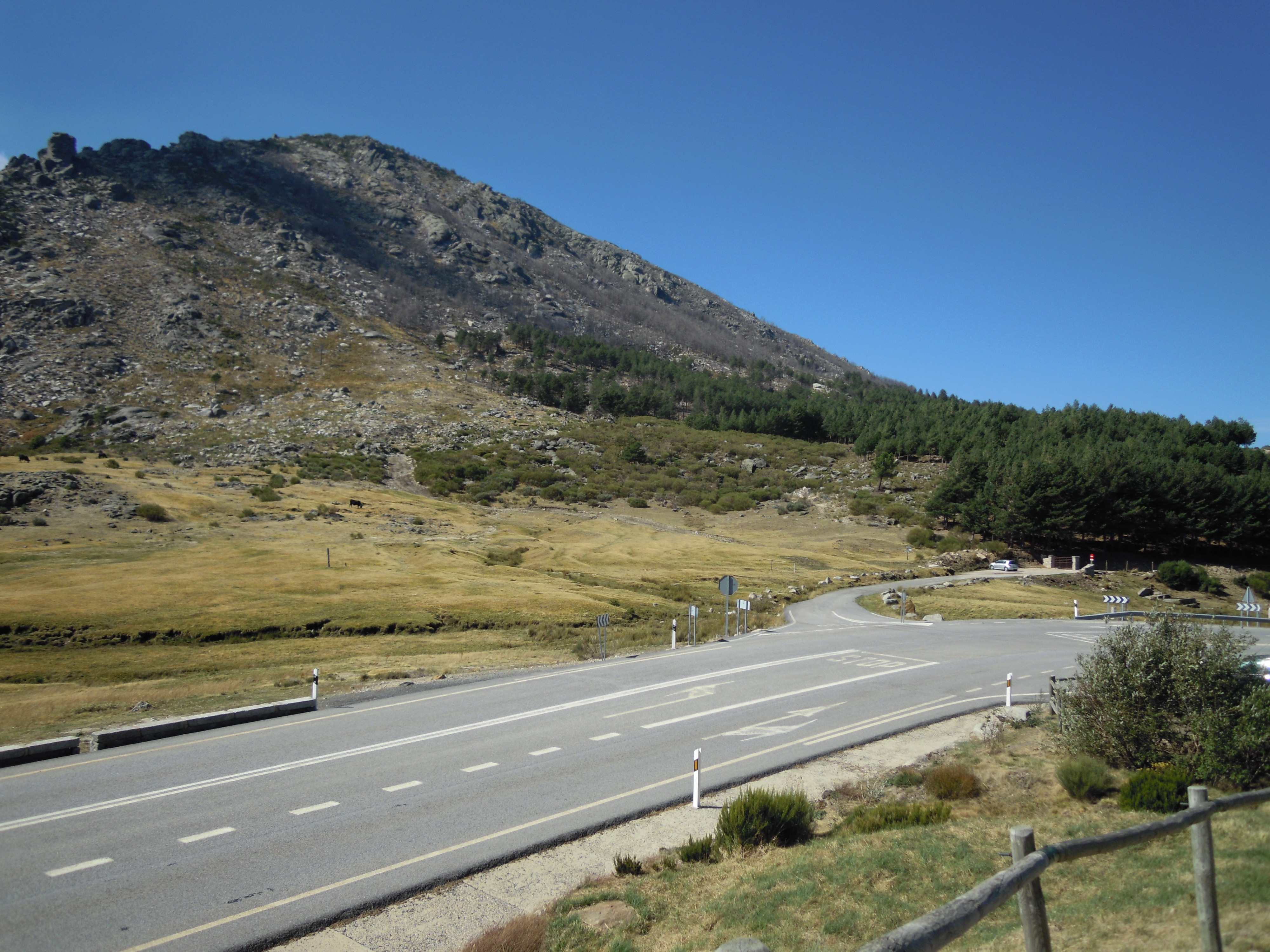 The mountain pass of Puerto del Pico, north of the village of Cuevas del Valle, Castile and León, Spain. It is 1352 meters above sea level.